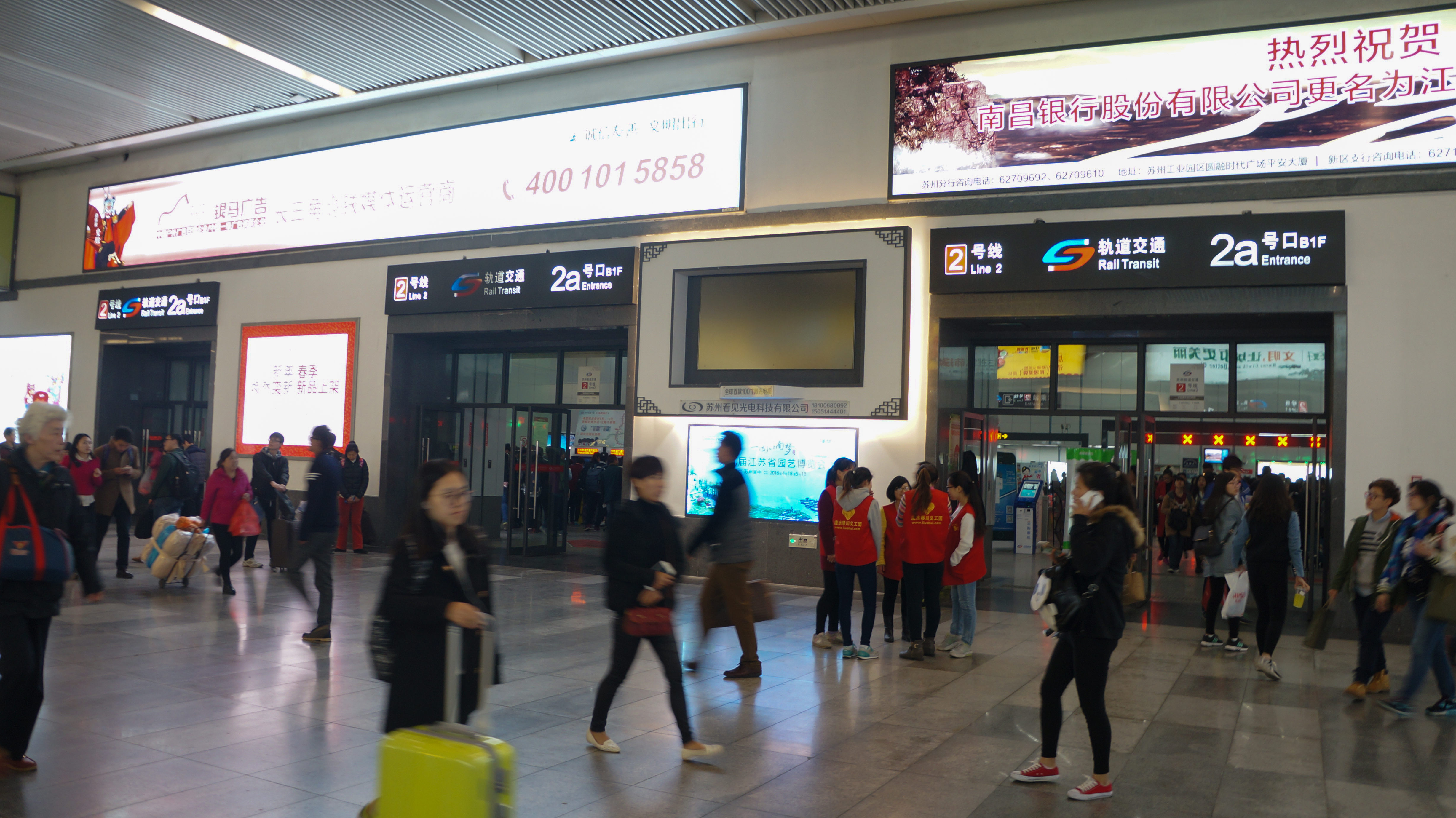 201603 SRT Entrance in the arrival hall of Suzhou Railway Station